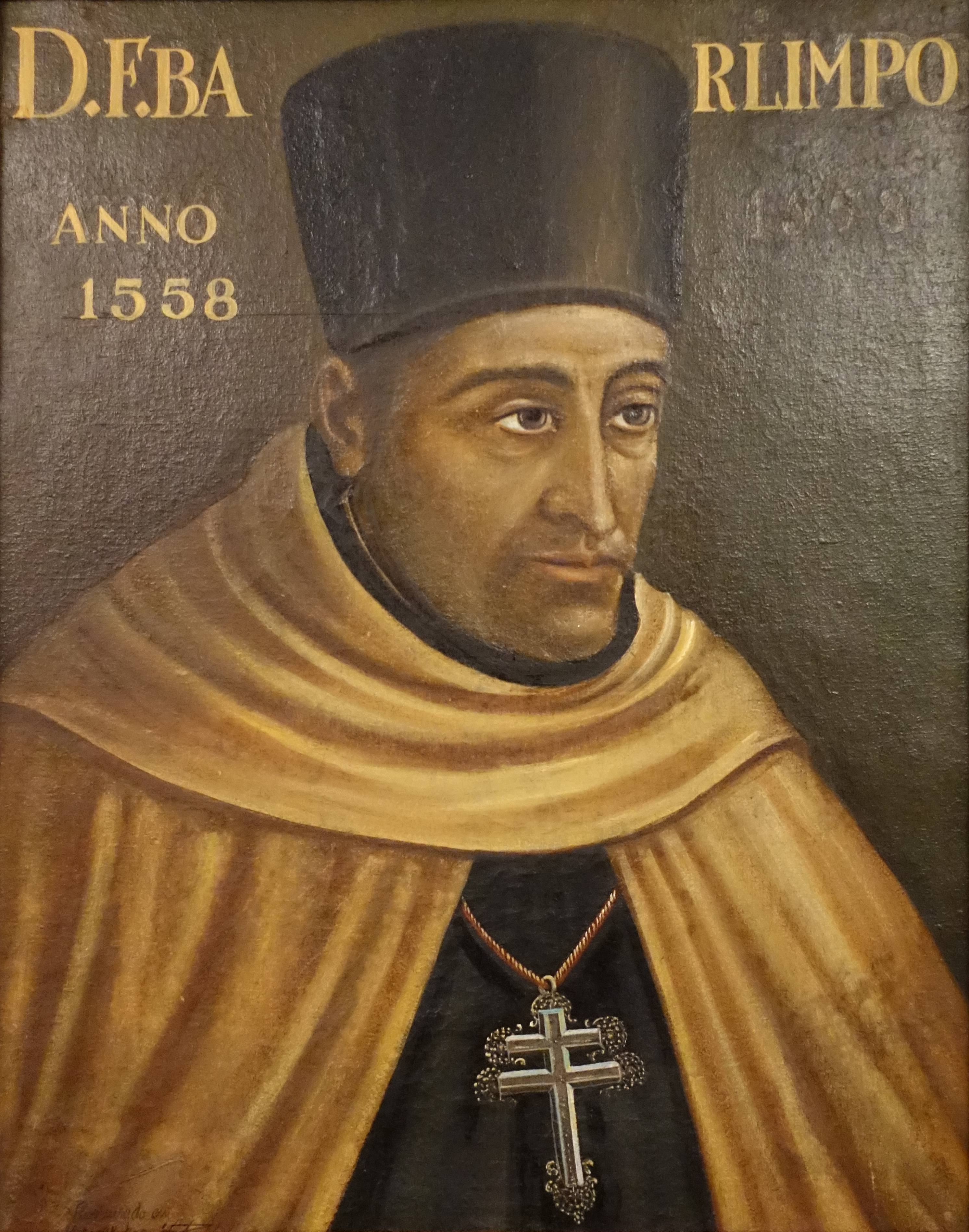 Friar Baltasar Limpo, Archbishop of Braga